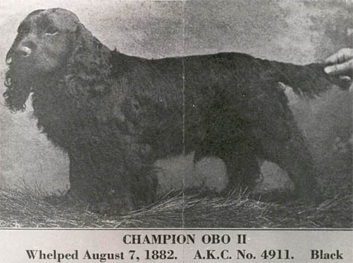 Photo of Cocker Spaniel Ch. Obo II, published in an American newspaper during the late 19th century.